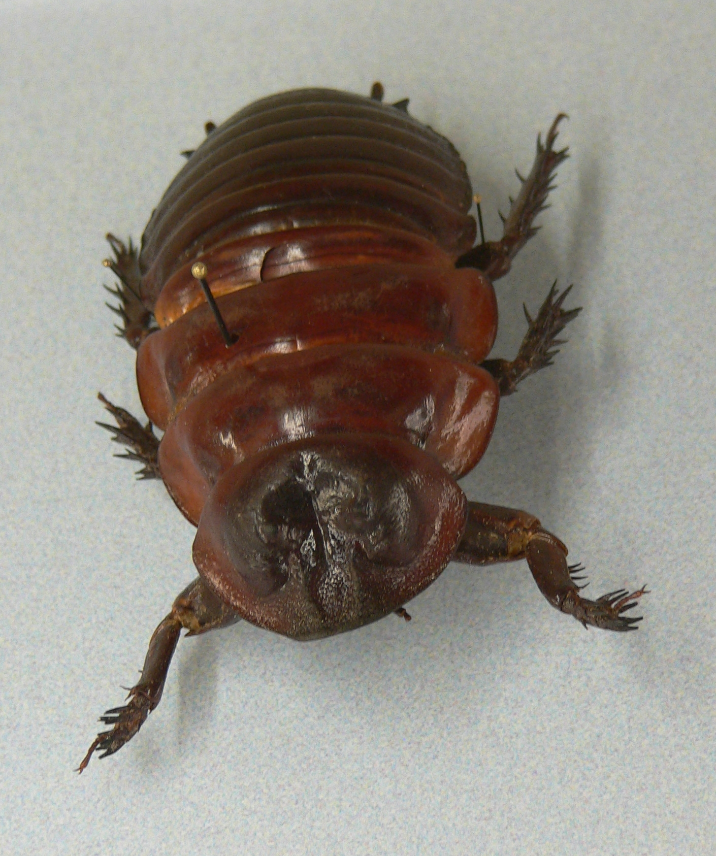 Macropanesthia rhinoceros Pictures taken by myself at the Audubon Insectarium